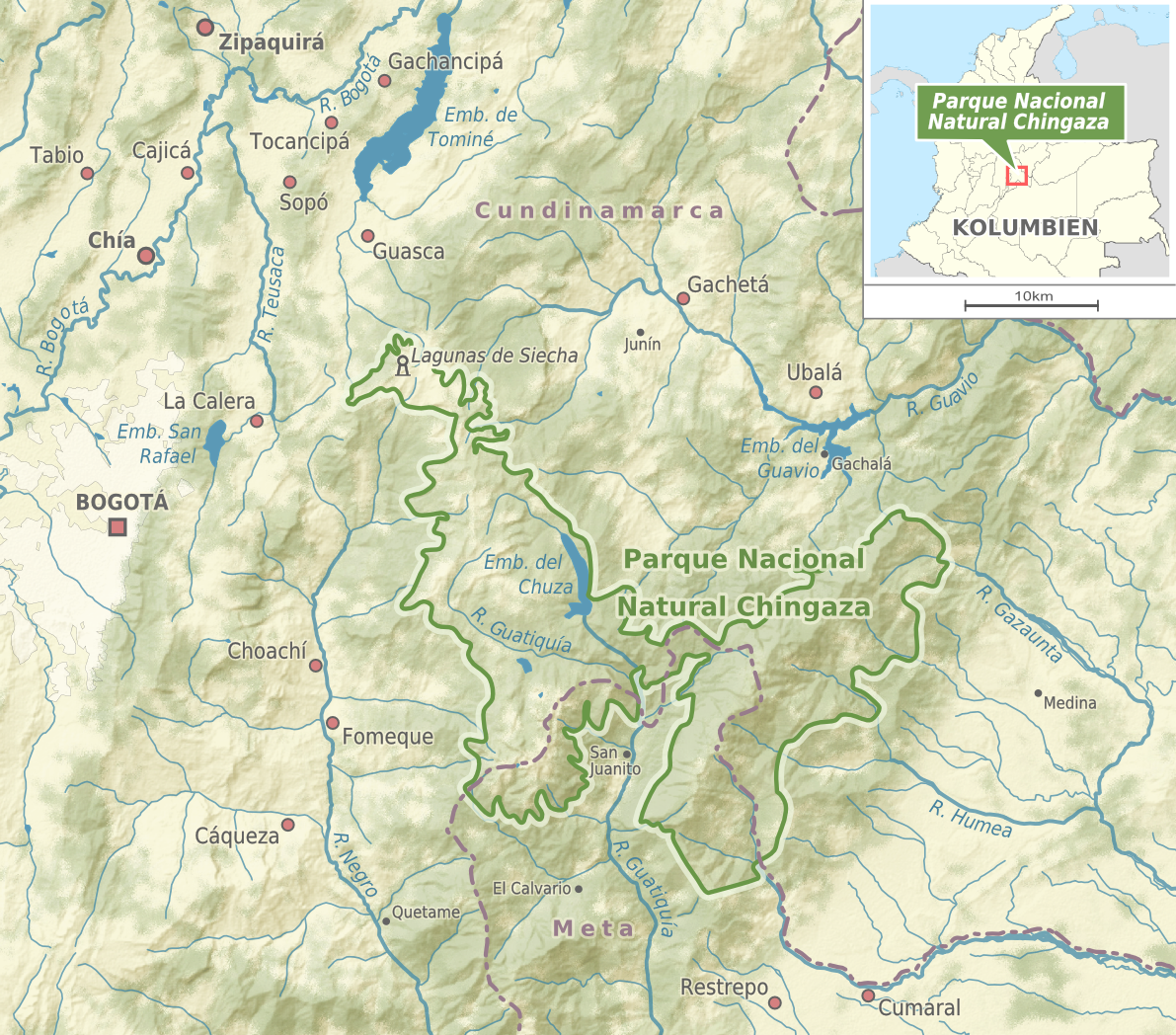 Map of National Park Chingaza